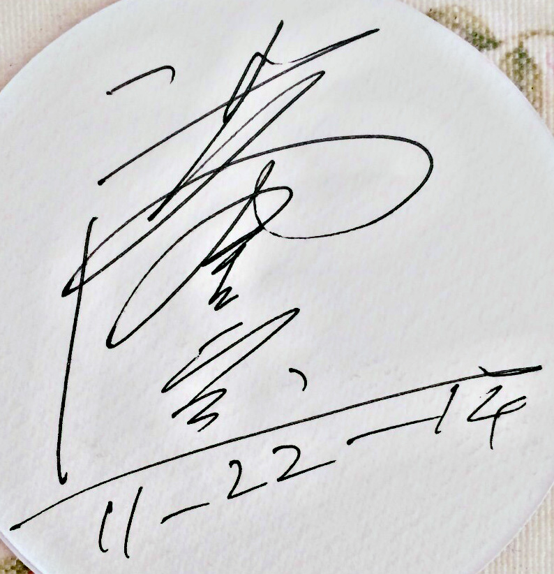 This is Sammo Hung's signature.